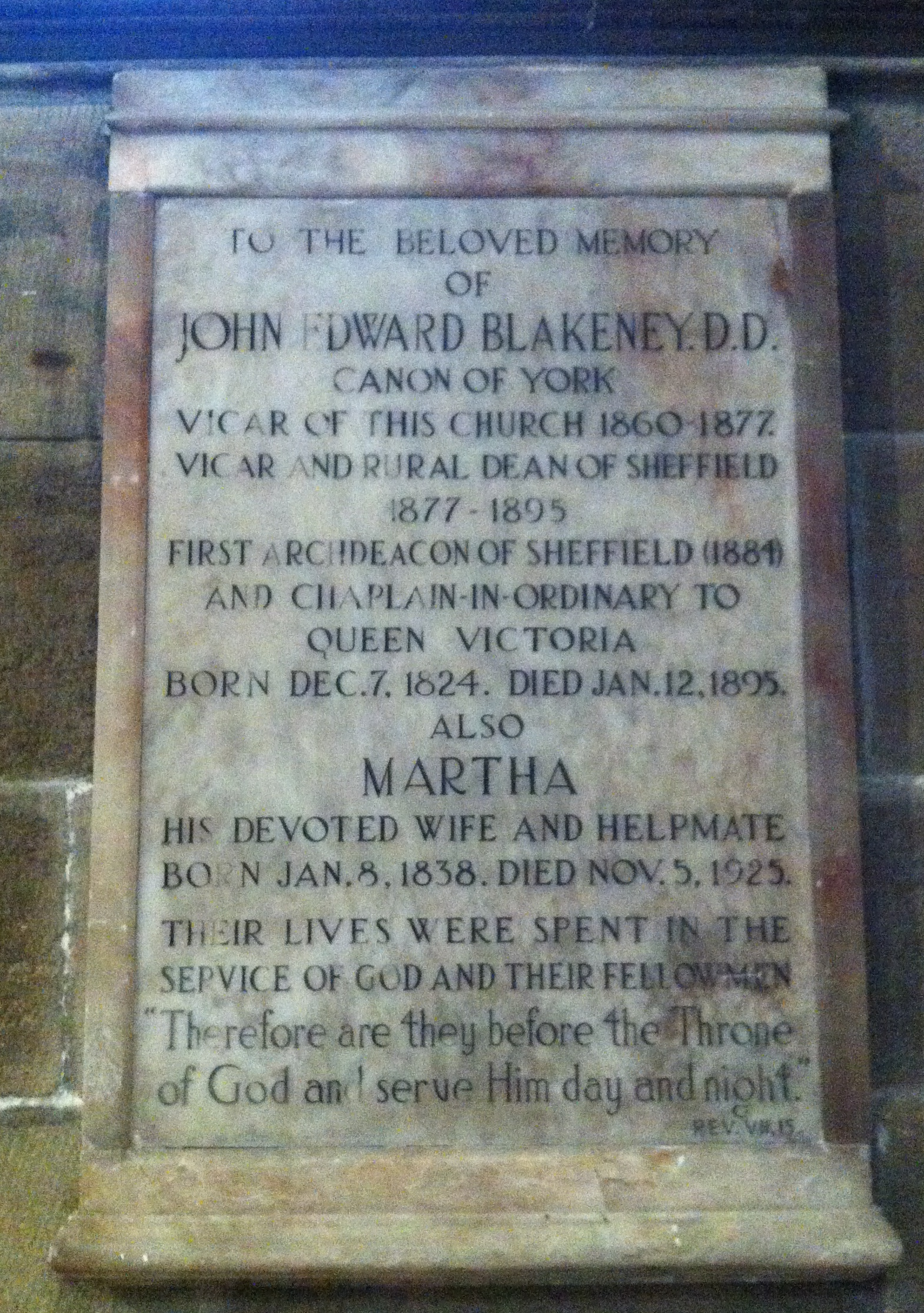 John Edward Blakeney DD, Canon of York, Vicar of this church 1860 - 1872, Vicar and Rural Dean of Sheffield 1877-1896, First Archdeacon of Sheffield 1884, and Chaplain-in-Ordinary to Queen Victoria. Born 7 Dec 1824, Died 12 Jan 1895. Also Martha his wife (8 Jan 1838 - 5 Nov 1925)